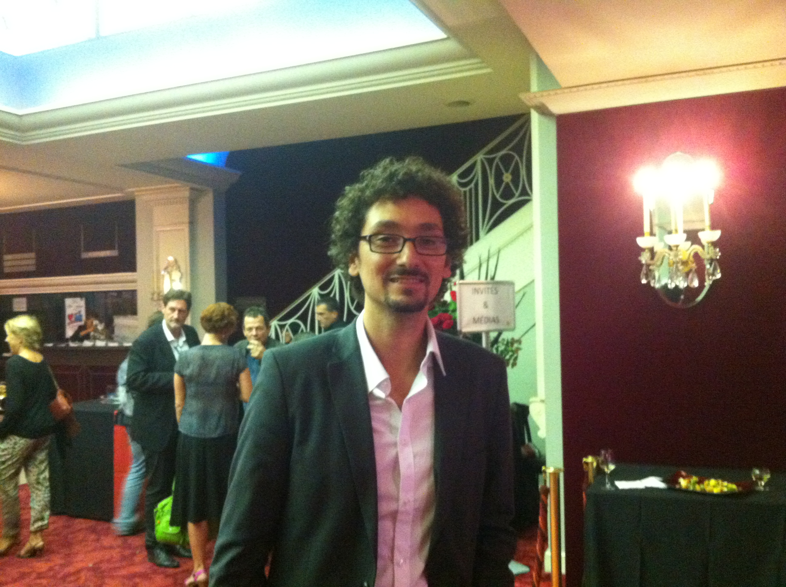 Prix Fnac 2012